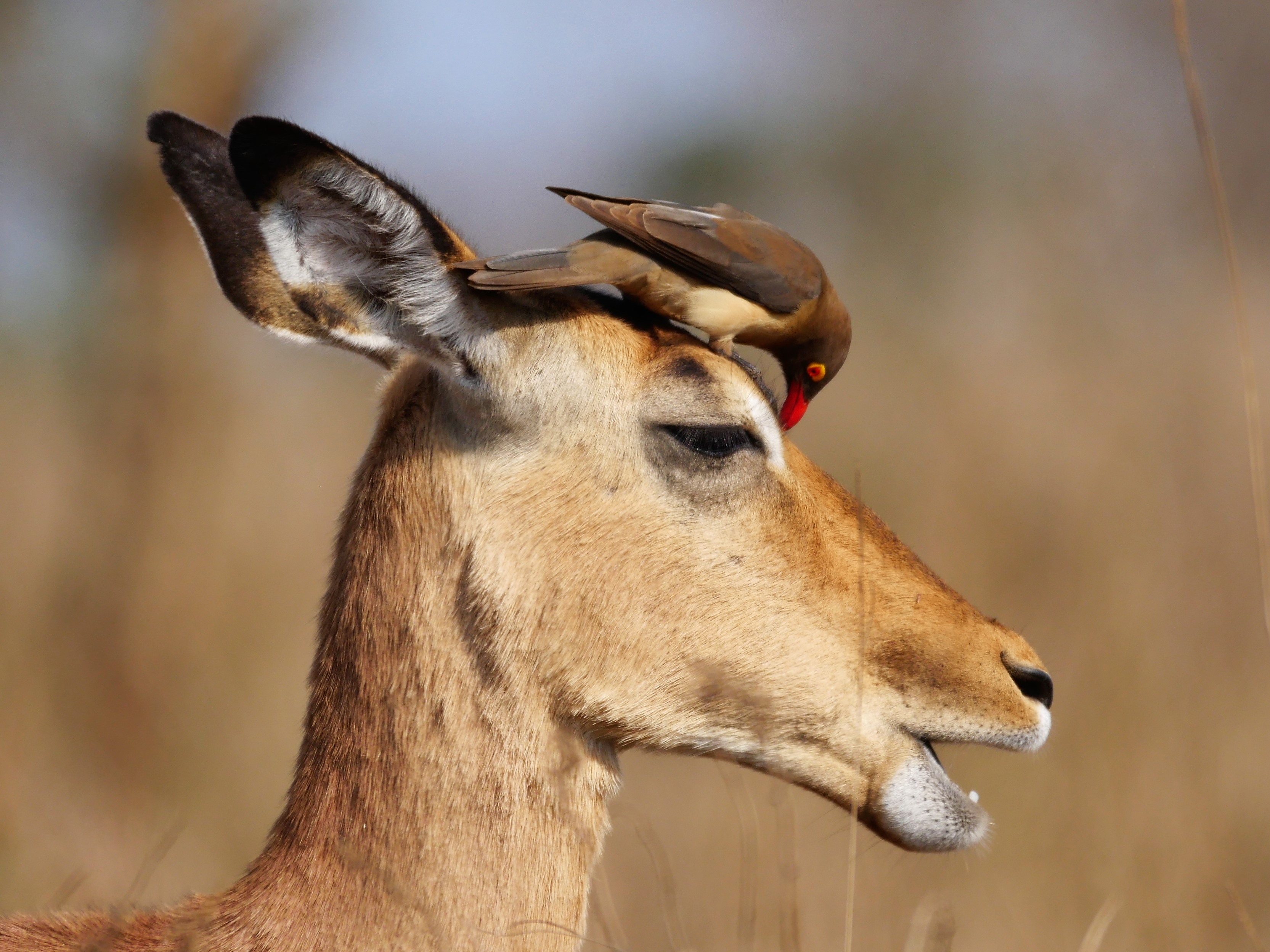 Impala with Oxpecker